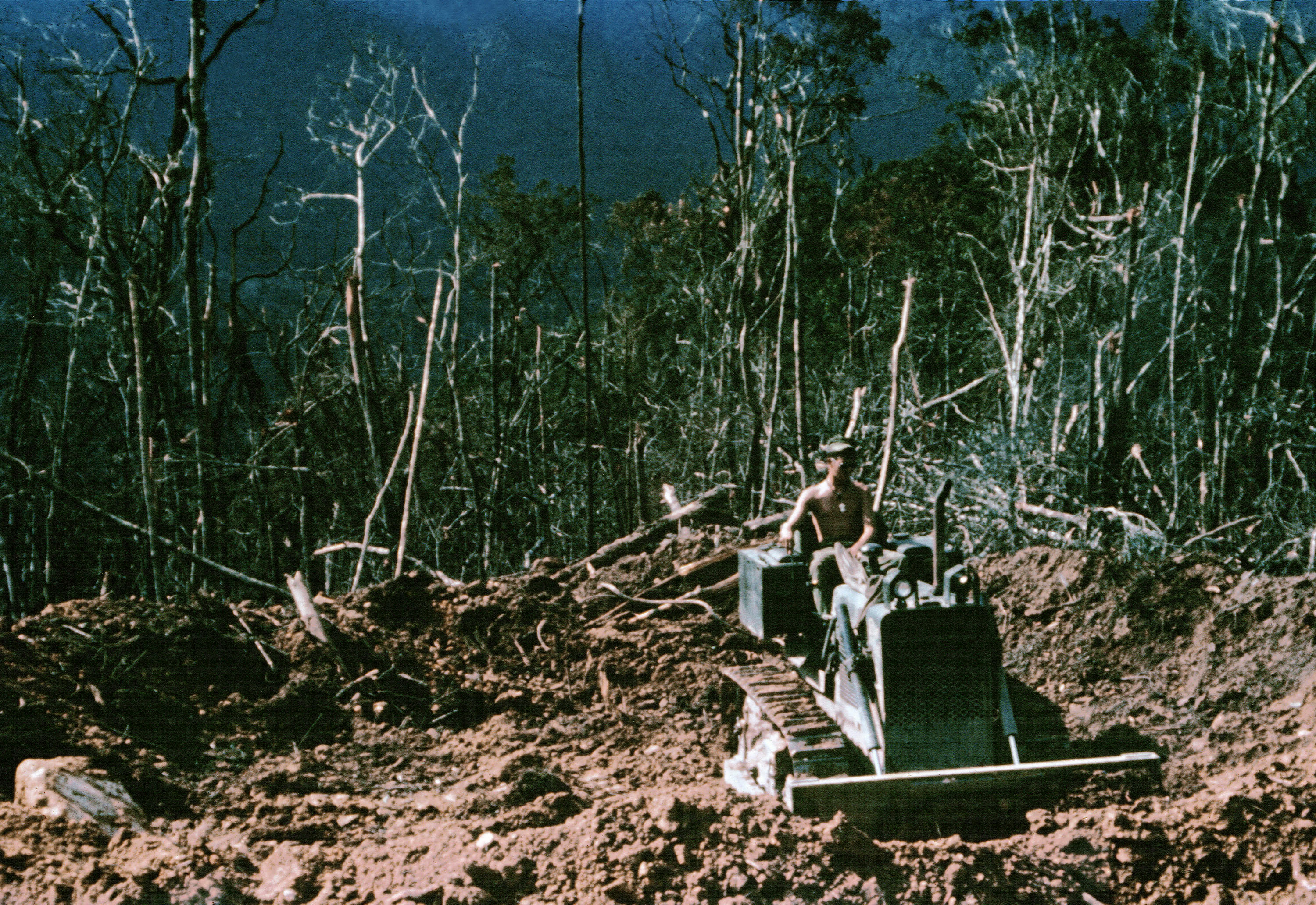 A member of the 3rd Marine Division uses a bulldozer to grade the construction site of a mountain-top fire support base.